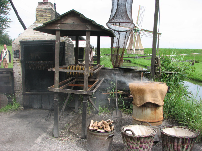 oven to smoke food